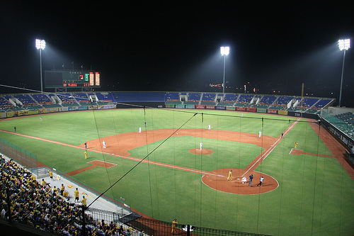 Description: Douliou Baseball Stadium Photographer: marioyang rationale: given permission 10:53, 26 December 2006 . . Kc0616 . . 500×333 (106,570 bytes)